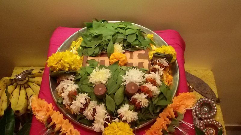 Visit to a place of devotee carrying out paduka poojan during Satchidanand utsav